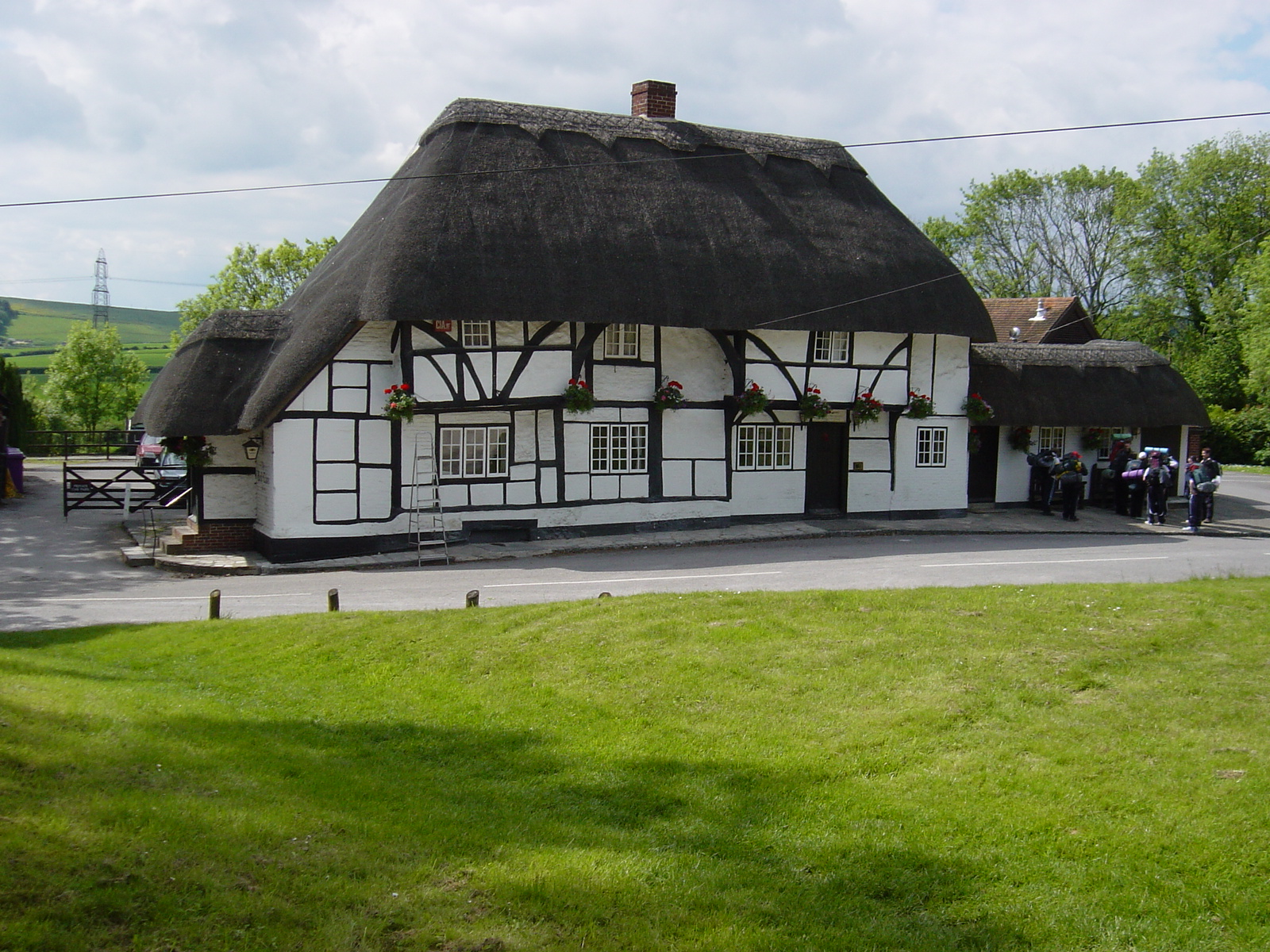 Ben Shade,Own Picture Summary Ben Shade,Own Picture